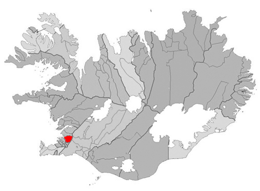 Based on Municipalities of Iceland.png.